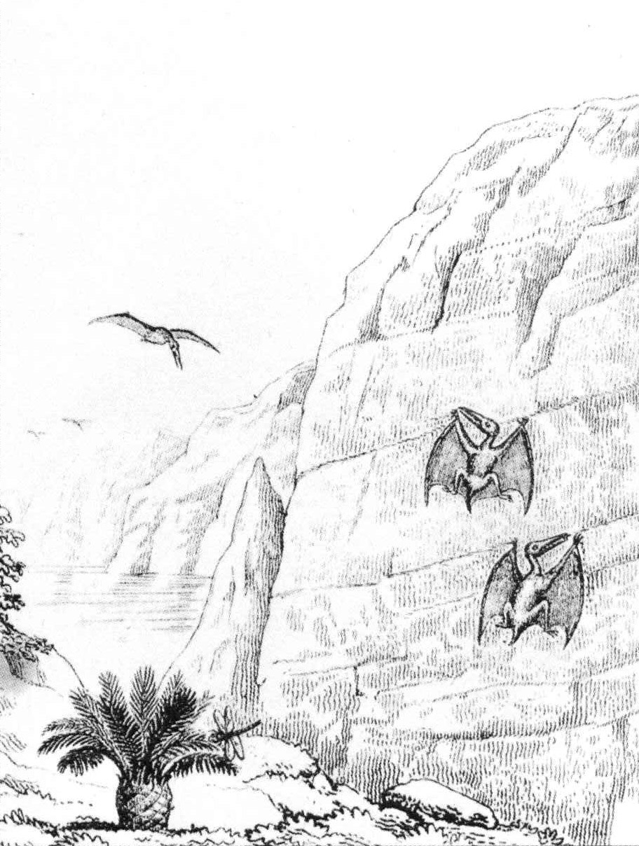 Drawing of pterosaurs by English naturalist William Buckland (1784-1856) in 1831. Buckland imagined pterosaurs hanging on cliffs.